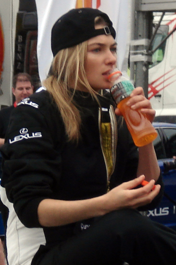 Jessica Hart at the 2011 Formula One Australian Grand Prix in Melbourne before the Lexus Celebrity Challenge Drivers Parade.